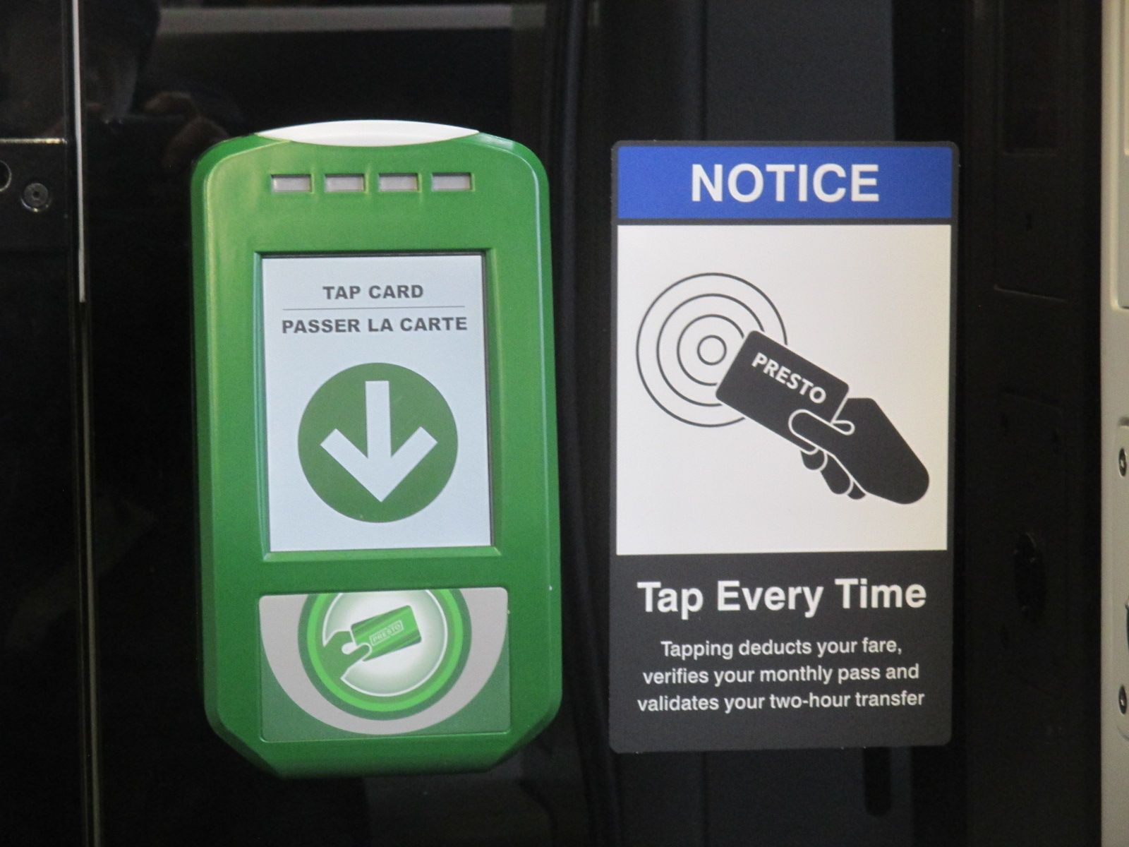 The notice asks Presto users to tap their Presto card or Presto ticket on the Presto reader every time they board a TTC surface vehicle.